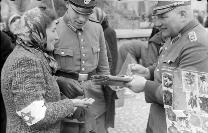 Photo probably taken in Lublin (identification based on distinctive building in related photo).